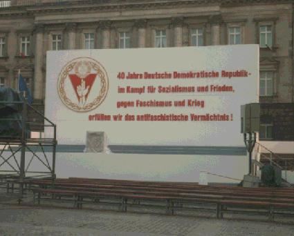 40 Years of German Democratic Republic - in fighting for socialism and peace, against fascism and war, we fulfill our antifascist heritage." 40th anniversary GDR festivities. September 1989